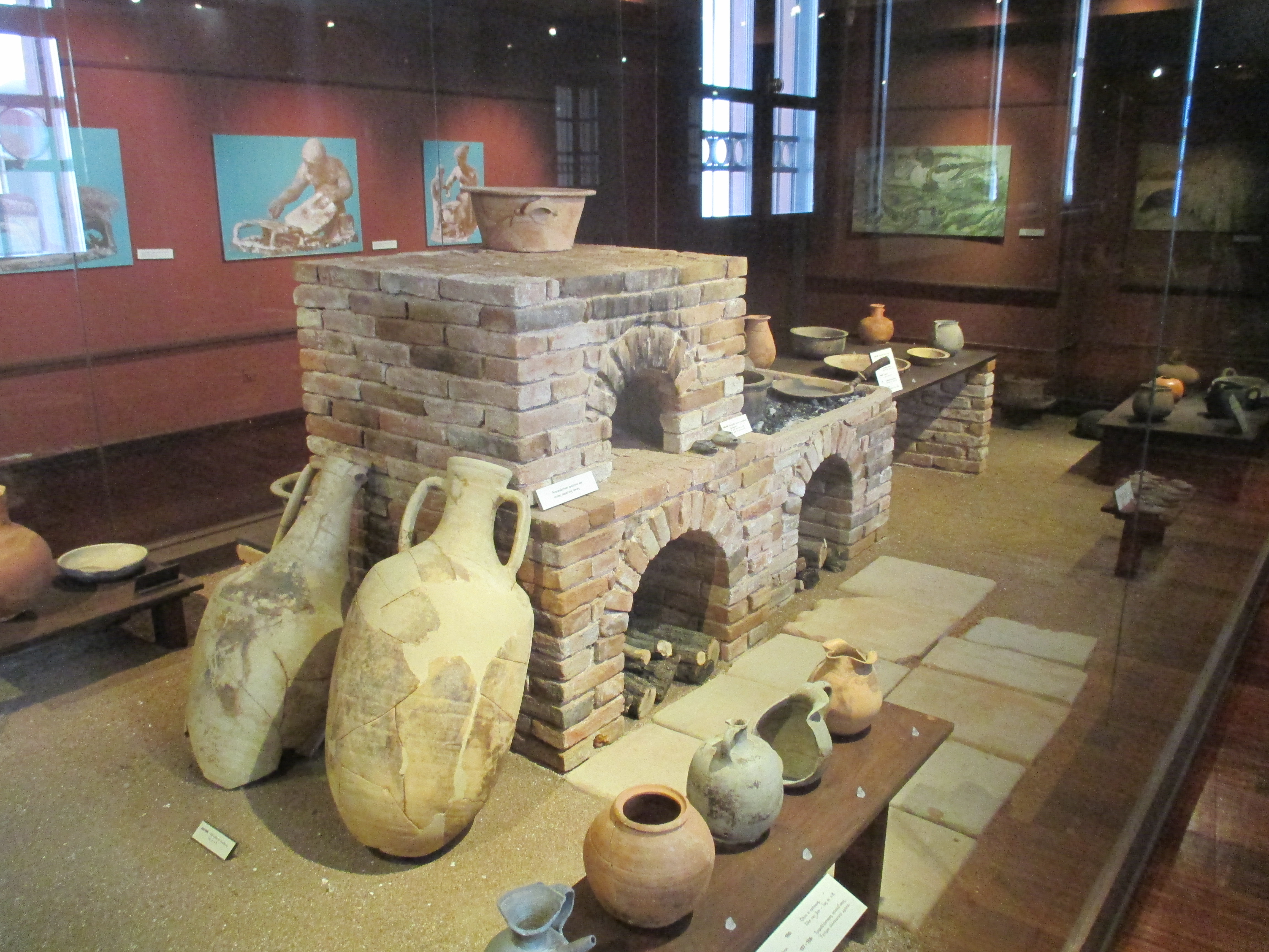 Archaeological Museum of Mytilene exhibitions.